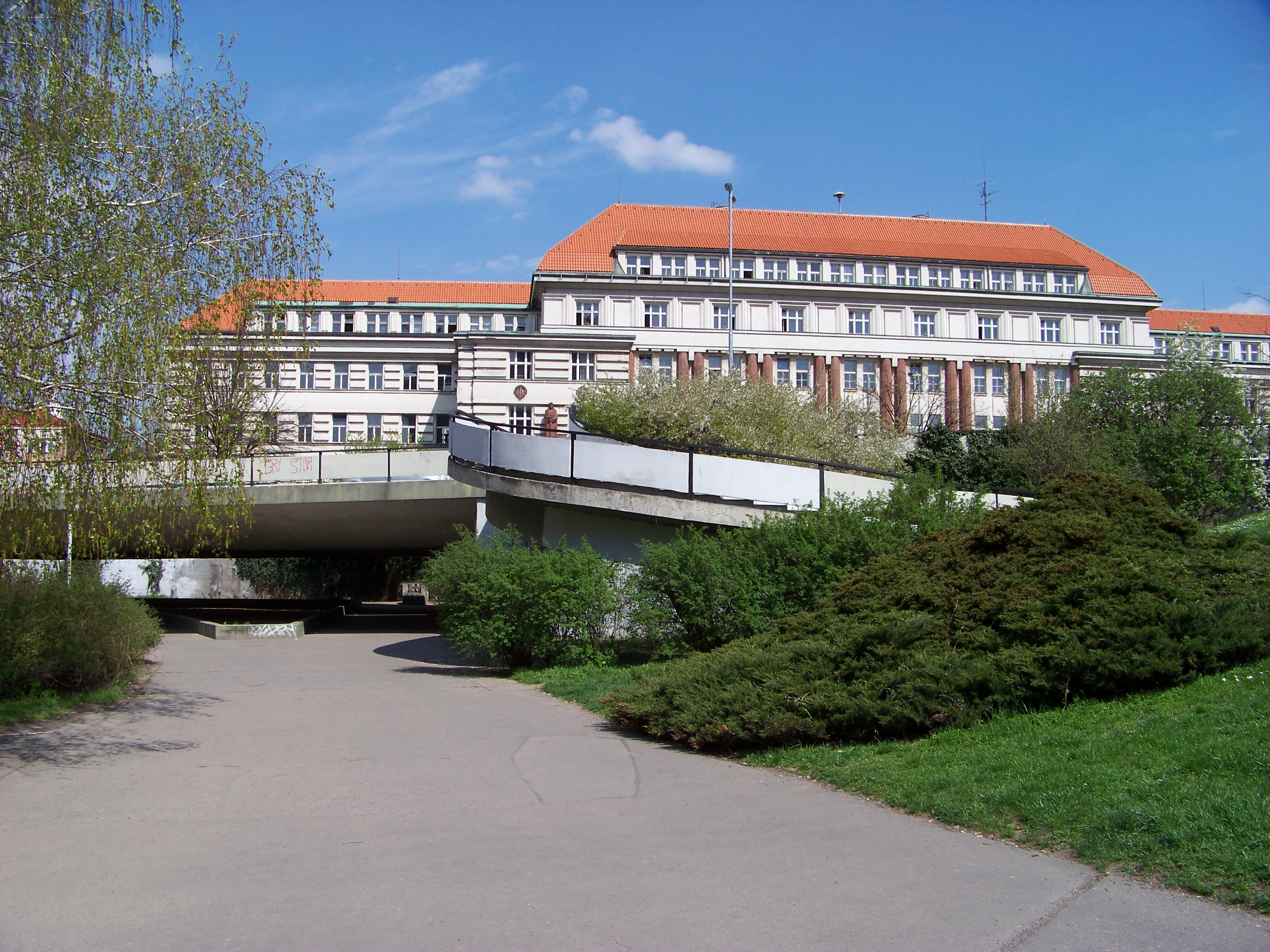 Prague-Nusle, the Czech Republic. Náměstí Hrdinů, a bridge and a courthouse.